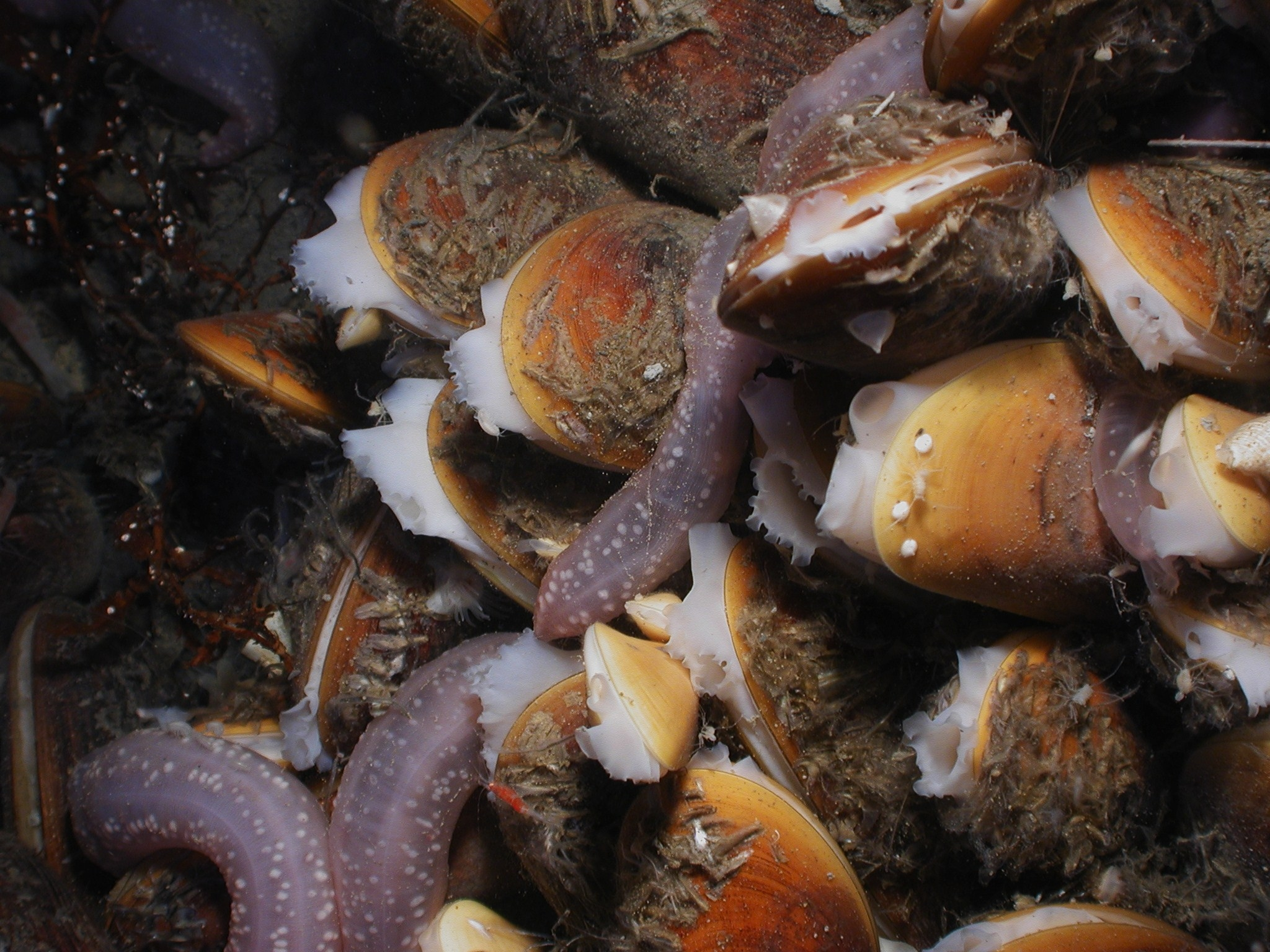 Operation Deep Slope 2007. Mussels, a red shrimp, and the pink holothurians Chirodota heheva. Gulf of Mexico.